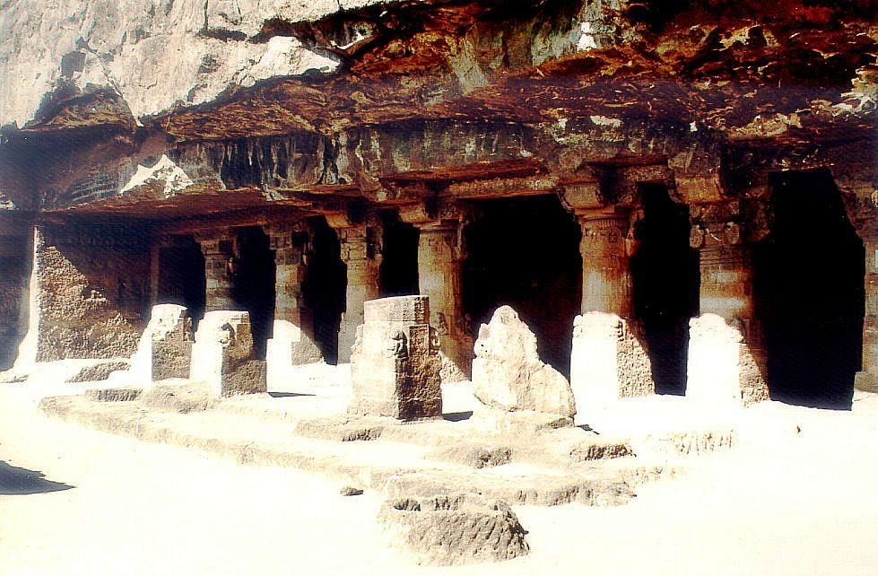 Aurangabad Caves, Maharashtra, India